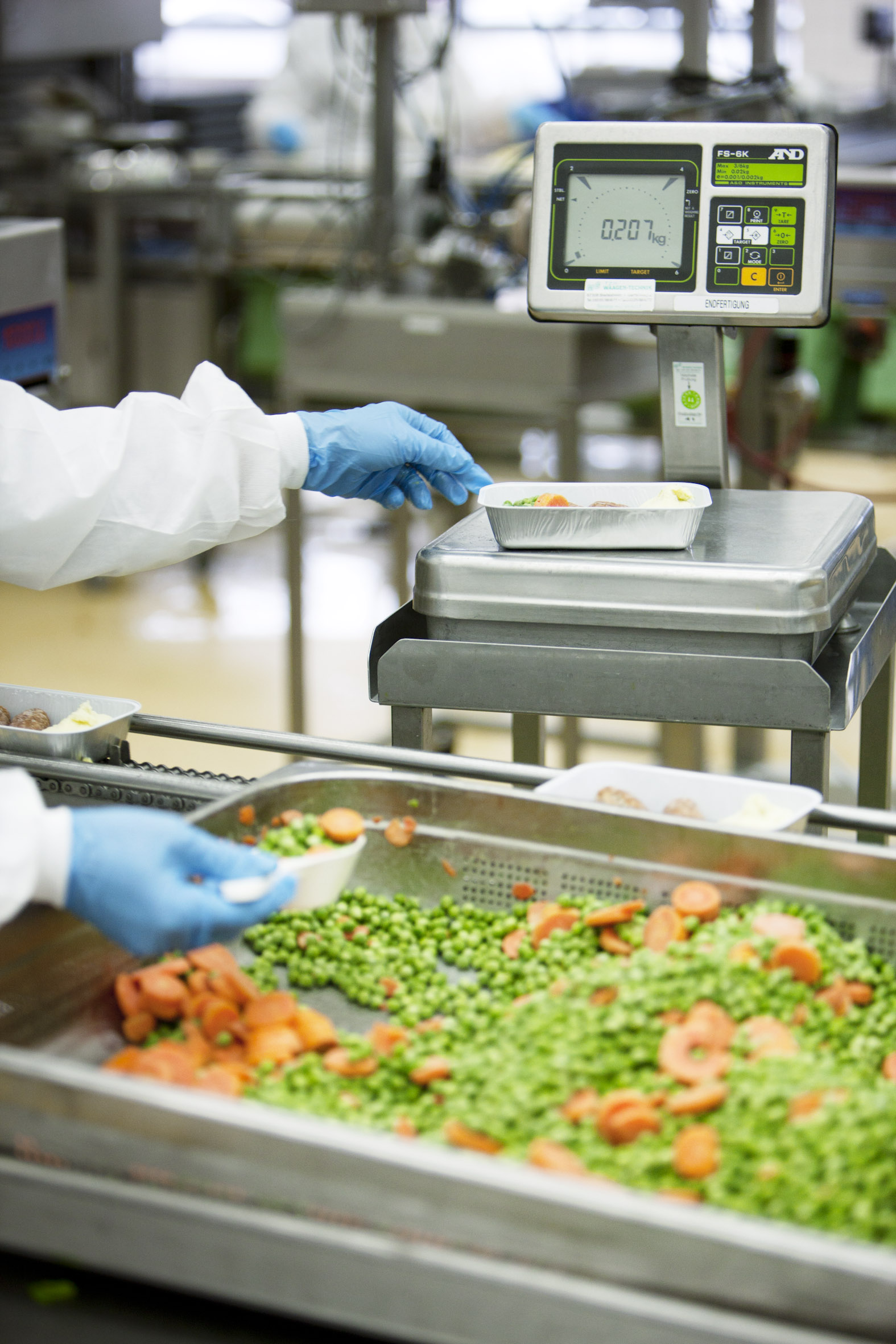 The defined weight per meal must be maintained for all meal components, including vegetables